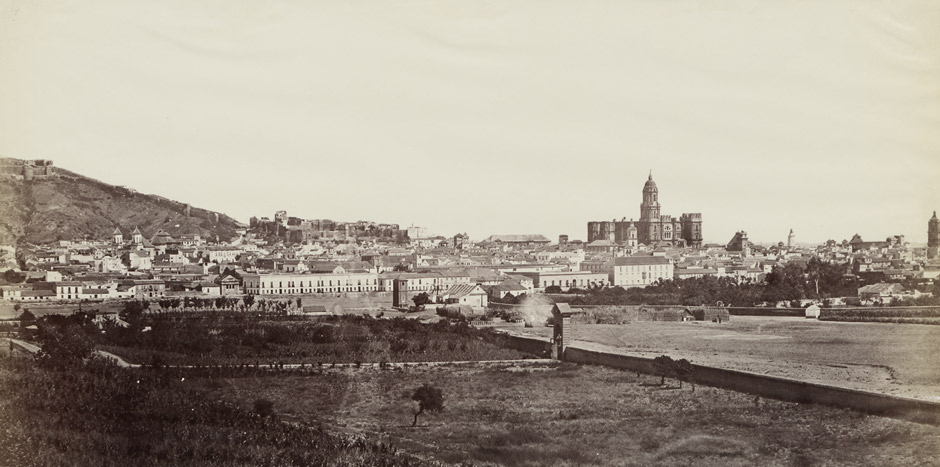 View of Malaga. Albumen print. 18 x 36 cm.